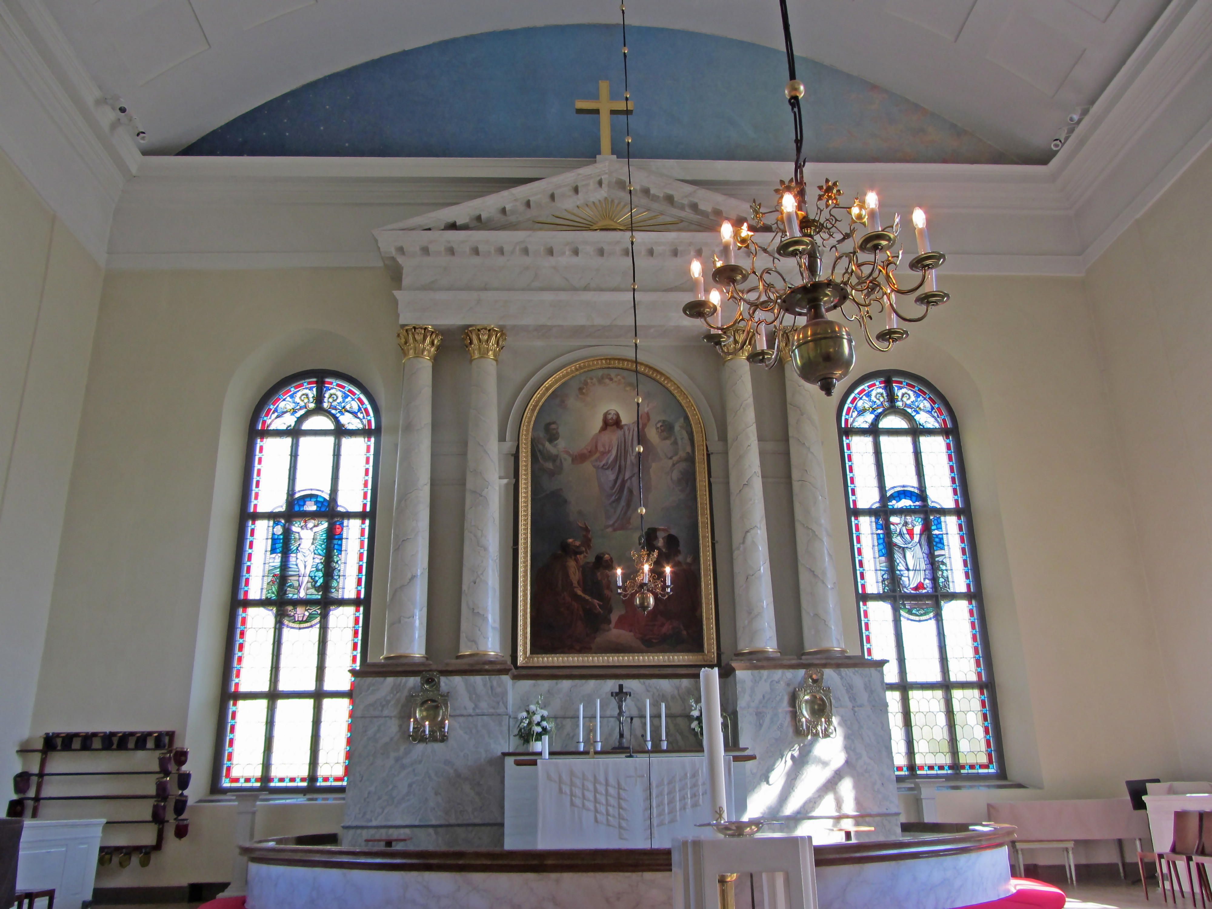 The altar piece of Oulu Cathedral was painted by Robert Wilhelm Ekman 1859.